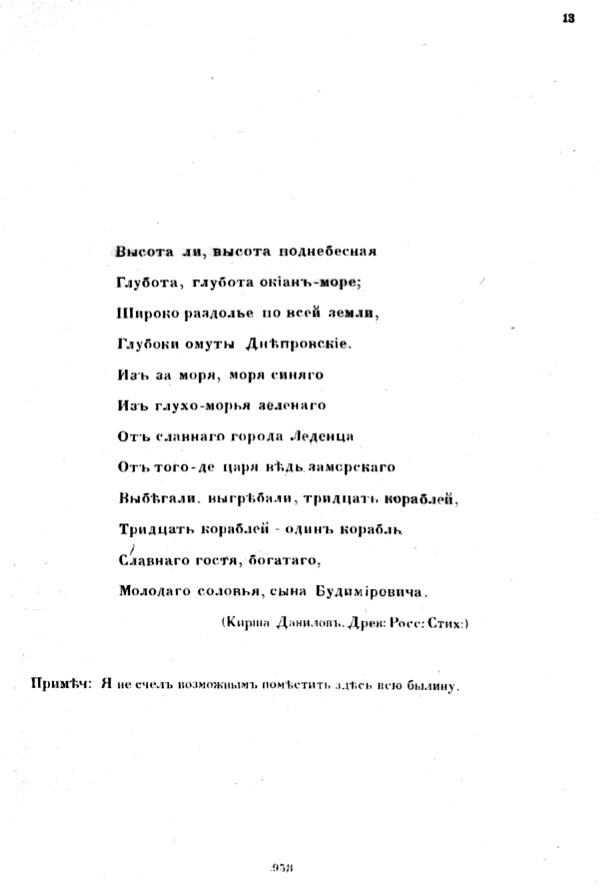 Rimsky-Korsakov 03b Solovei Budivirovich